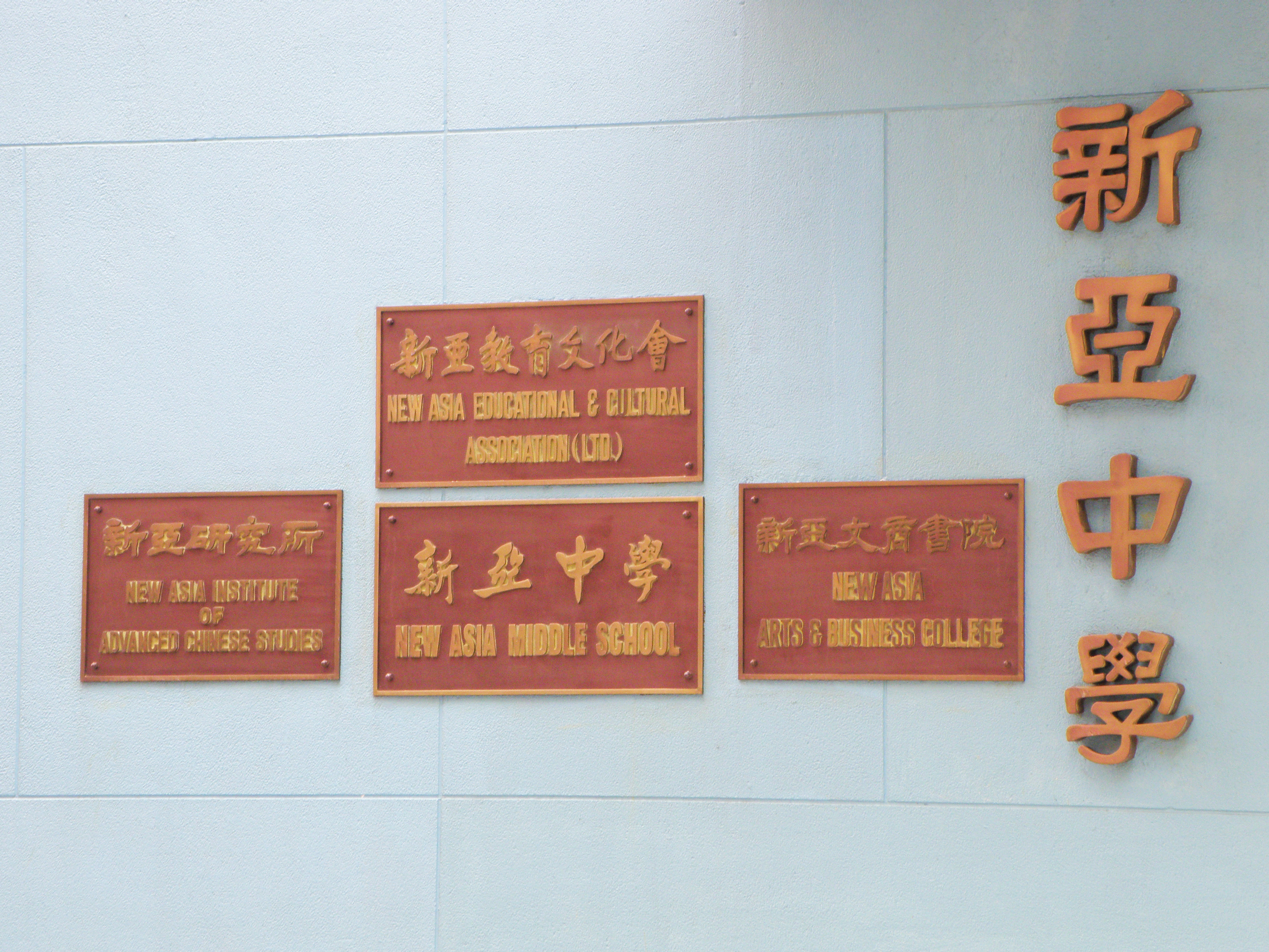 New Asia Middle School in Ma Tau Wai, Hong Kong.